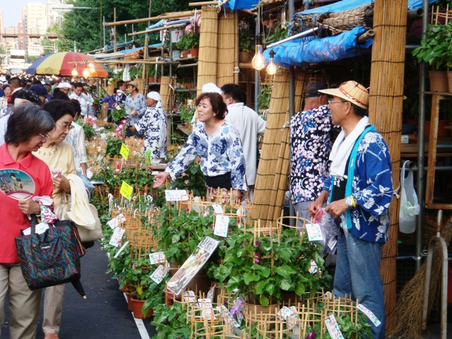 "Asagao Festival" (also known as "Asagao Market") is a traditional market and festival to be held in Iriya, Taito ward in Tokyo. The main event of this festival is displaying and selling many pots of morning glory. This festival is very popular among residents and tourists, as one of the traditional events in Shita-mati (「下町」, an old town) district in Tokyo, Iriya, Events and festivals.